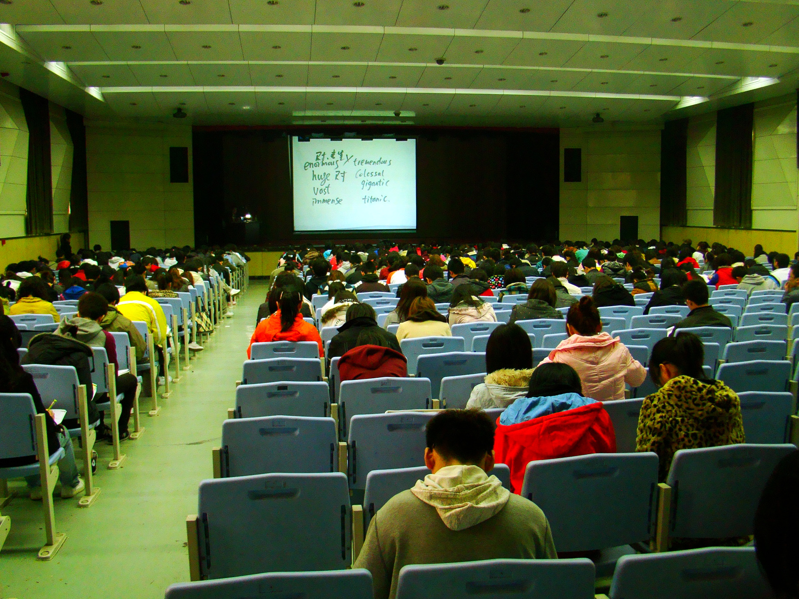 The Audimax in the Shaanxi Normal University (Xi'an City). Аудимакс (самый большой лекционный зал) в Педагогическом университете Шэньси, город Сиань.